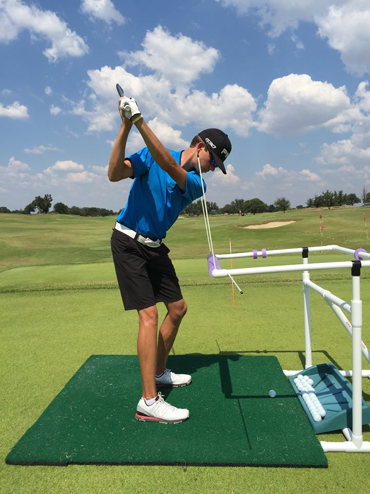 The ProZone is a golf swing trainer designed to help golfers make better contact with the golf ball, and improve scoring.